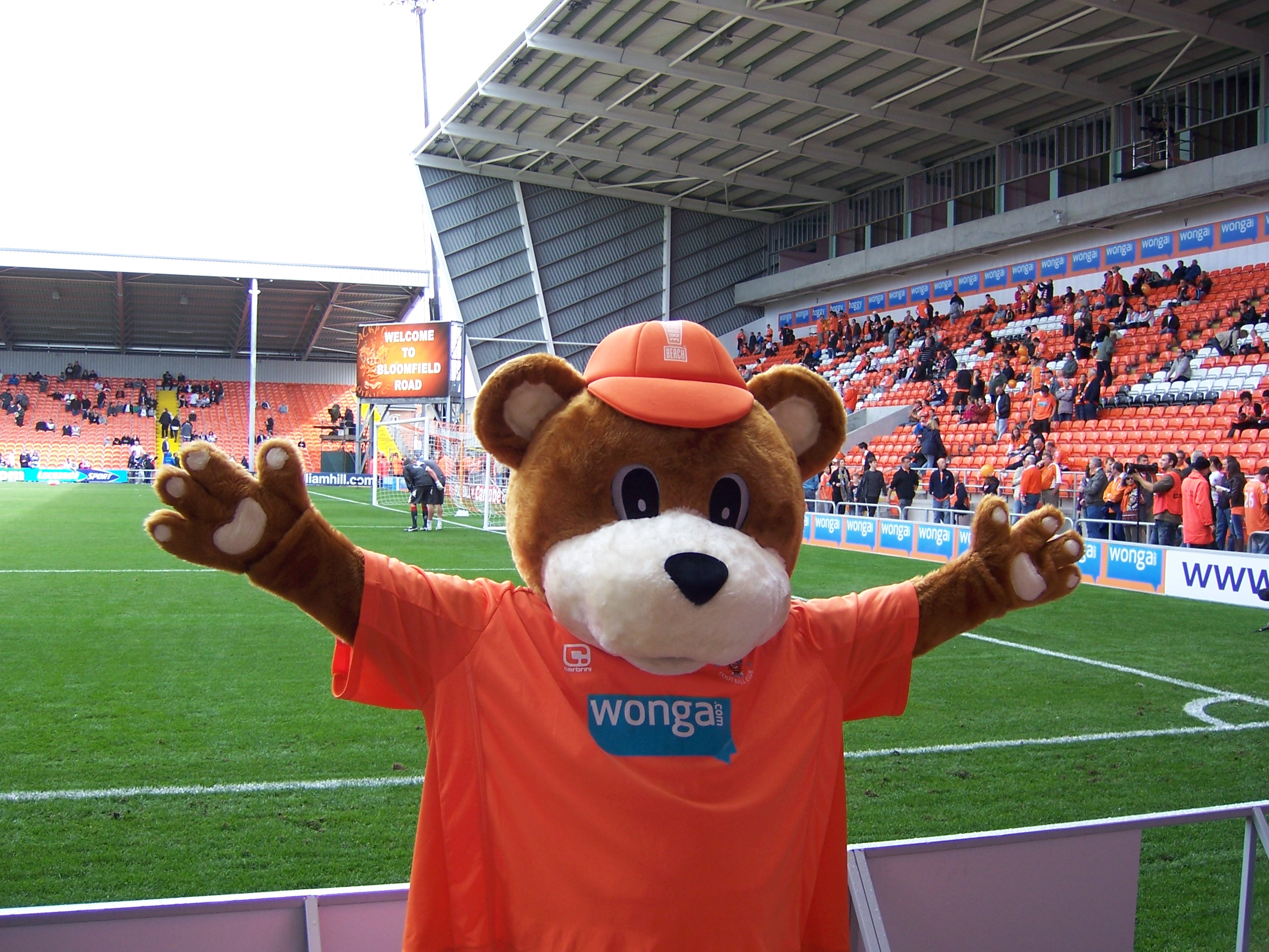 'Welcome to the Premier League' ... Bloomfield Bear at Bloomfield Road, Blackpool